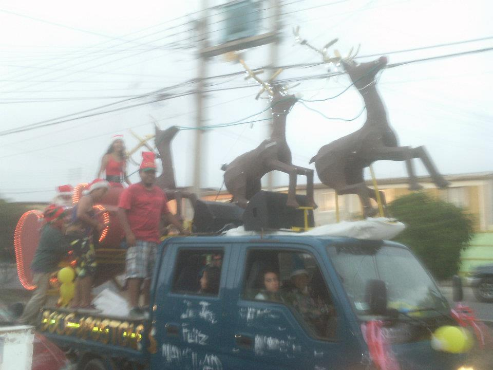 A christmas parade in Iquique